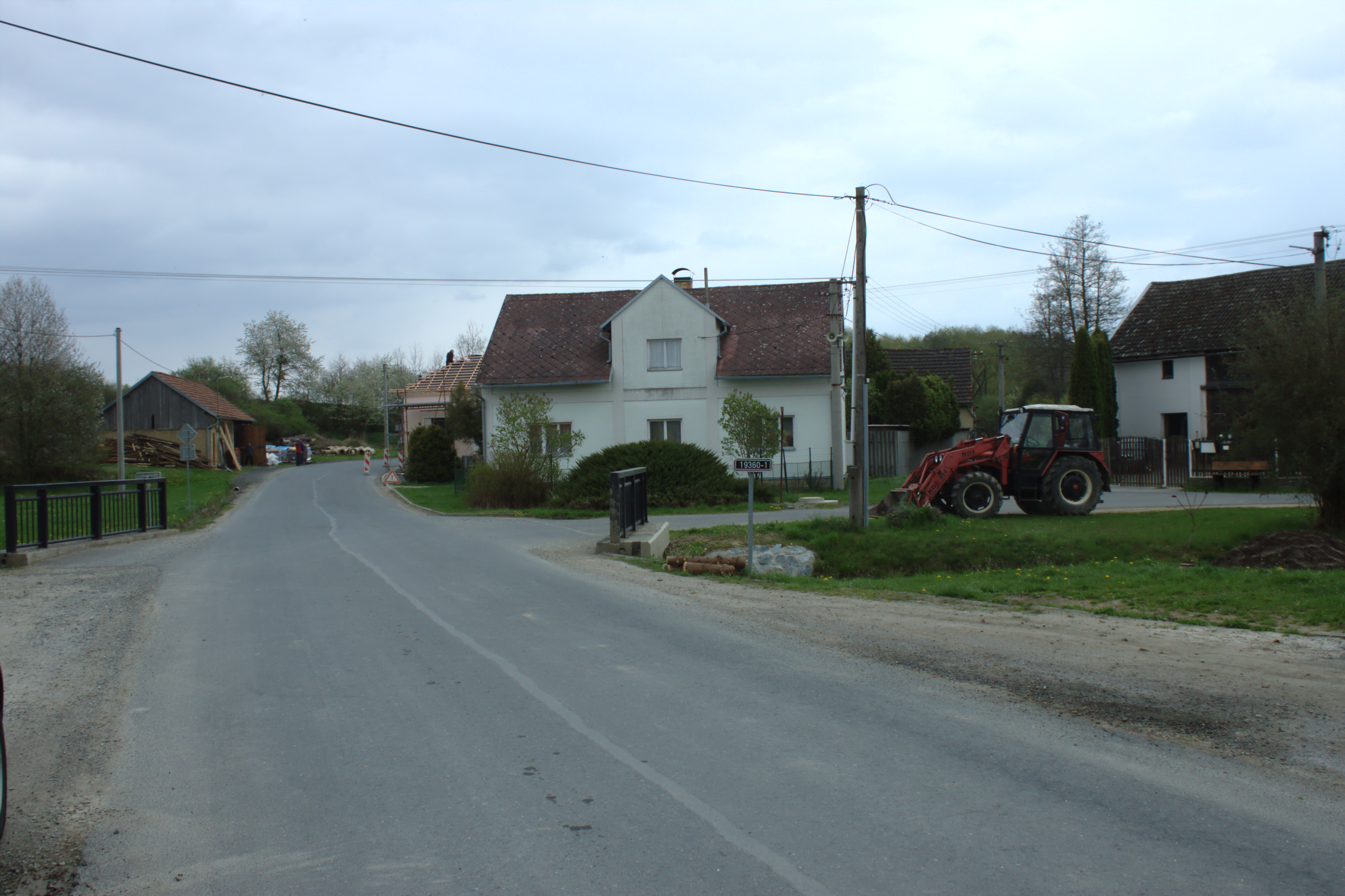 A building next to the main road in the village of Mračnice, Plzeň Region, CZ